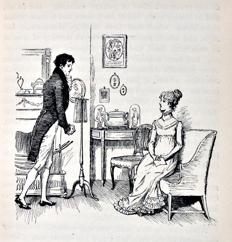 Image at the beginning of Chapter 34. Darcy proposing to Elizabeth. Austen, Jane. Pride and Prejudice. London: George Allen, 1894.